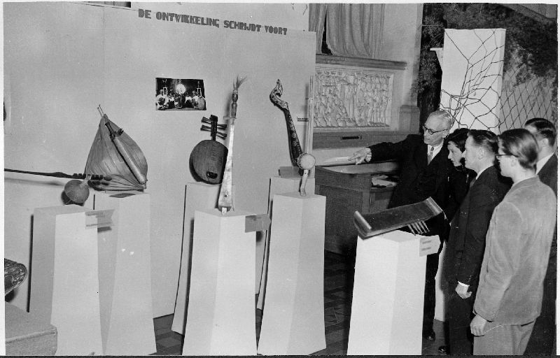 Subject: conservator, education, instructional materials, music, exhibition, visualization, explanation, explication